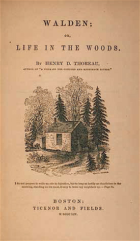 Published by Ticknor and Fields, Boston